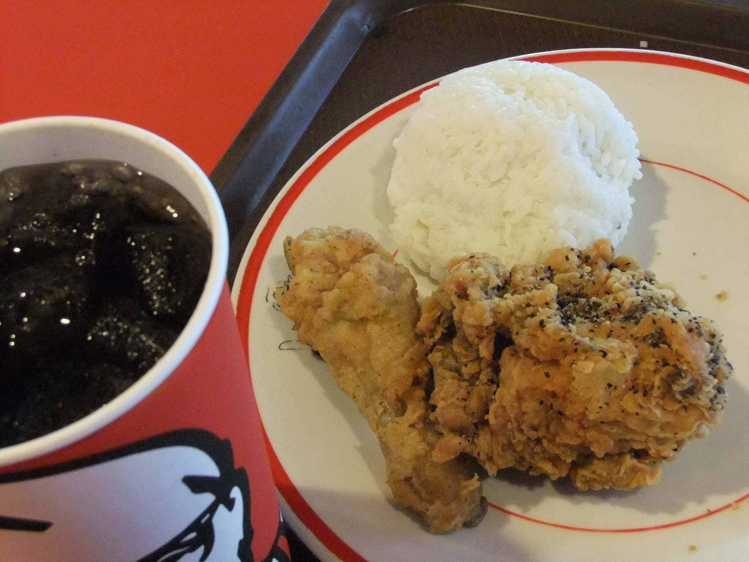 Fried chicken with rice, Indonesia